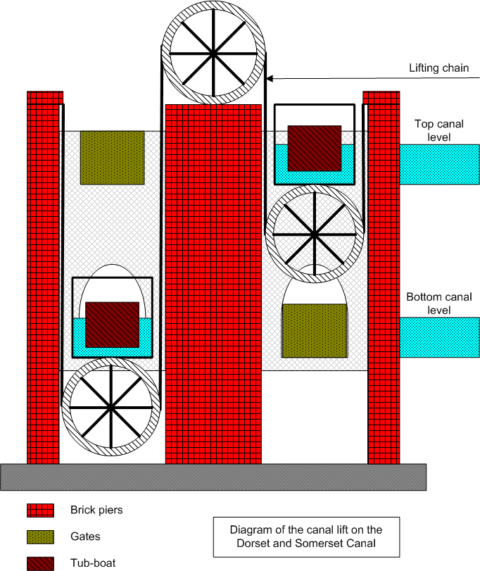 Diagram showing arrangement of Fussells boat lift for the Dorset and Somerset Canal, updated following archaeological excavation in 2005.